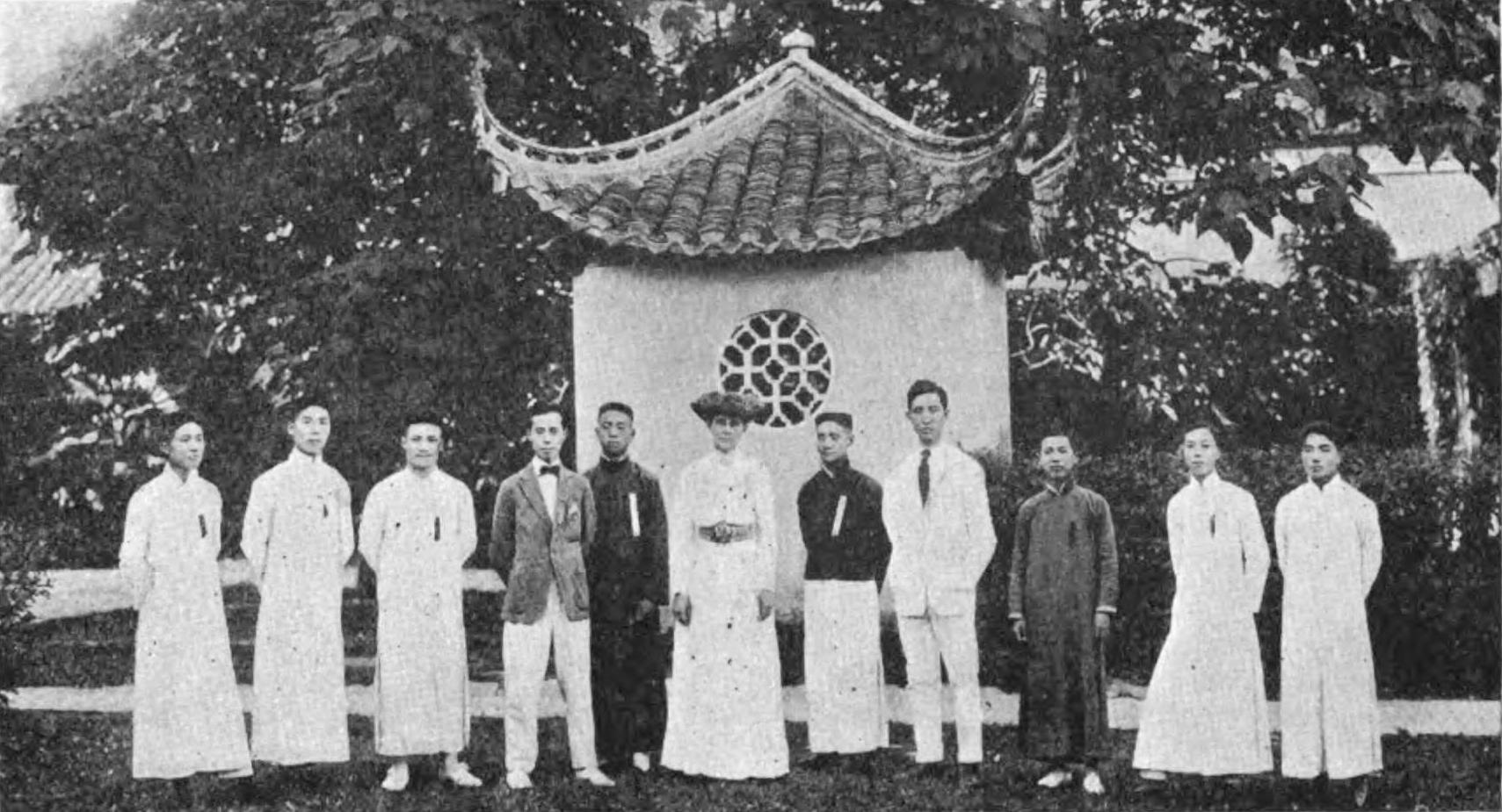 Library Journal June 15, 1921 p555